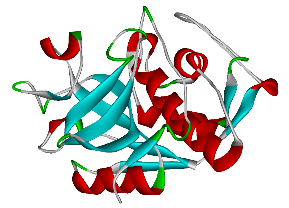 Ribbon diagram of human cathepsin K, colored by secondary structure. Created using Accelrys DS Visualizer Pro 1.6 and GIMP.